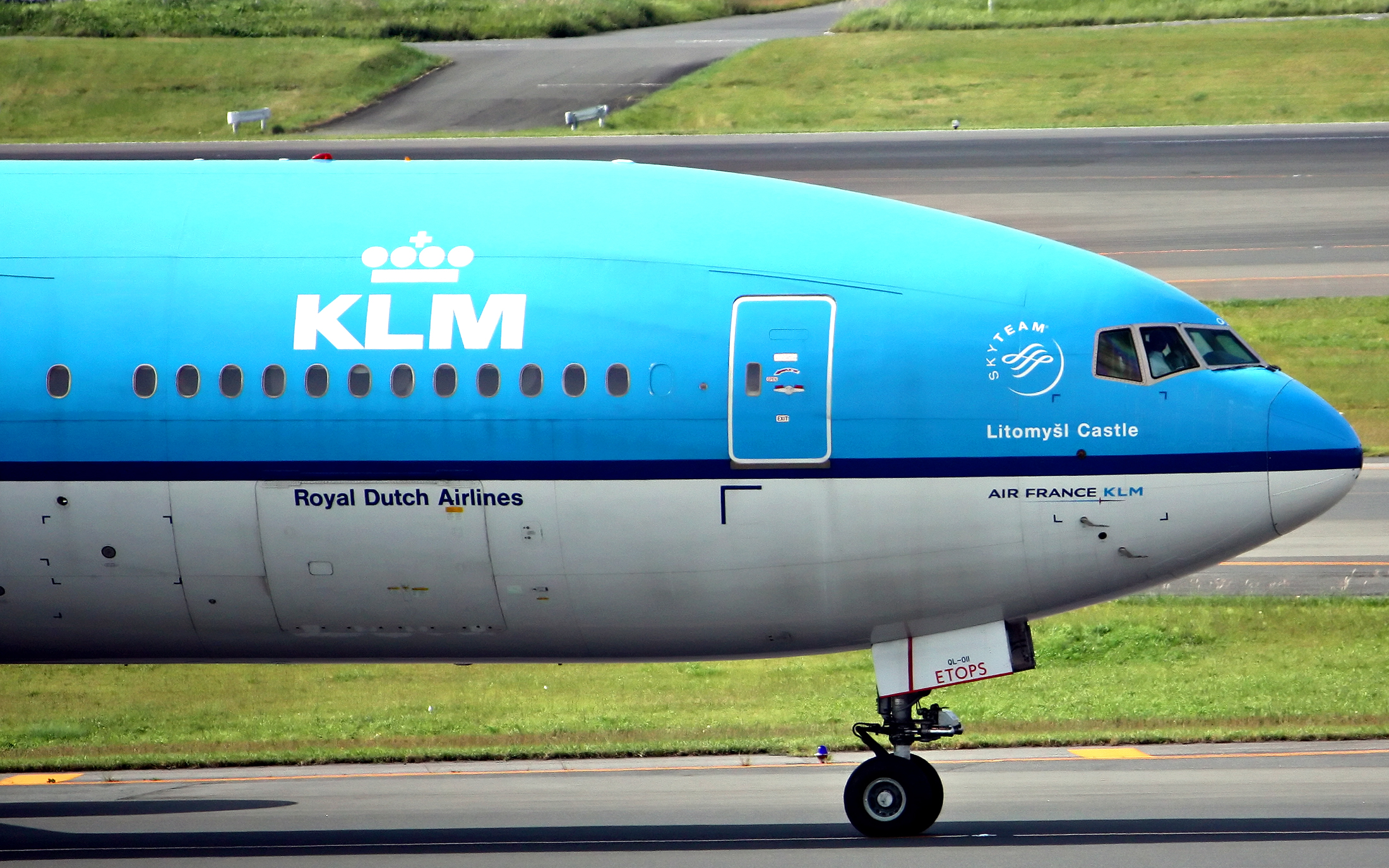 Boeing:777-200ER SN:34711/552 Named: Litomysl Castle